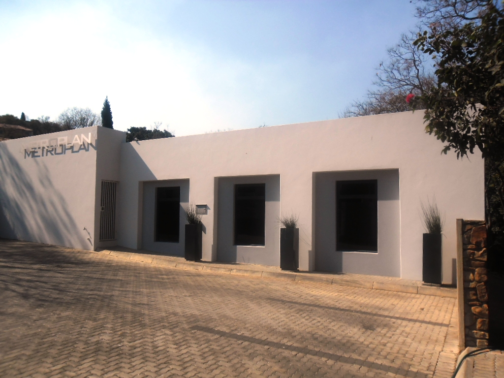 Metroplan's neomodernist facade finilised during the comapny's 2011 reconstruction.